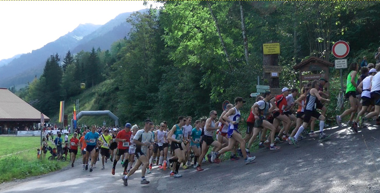 Mass Start of the Hochgrat Mountain Running Race 2011